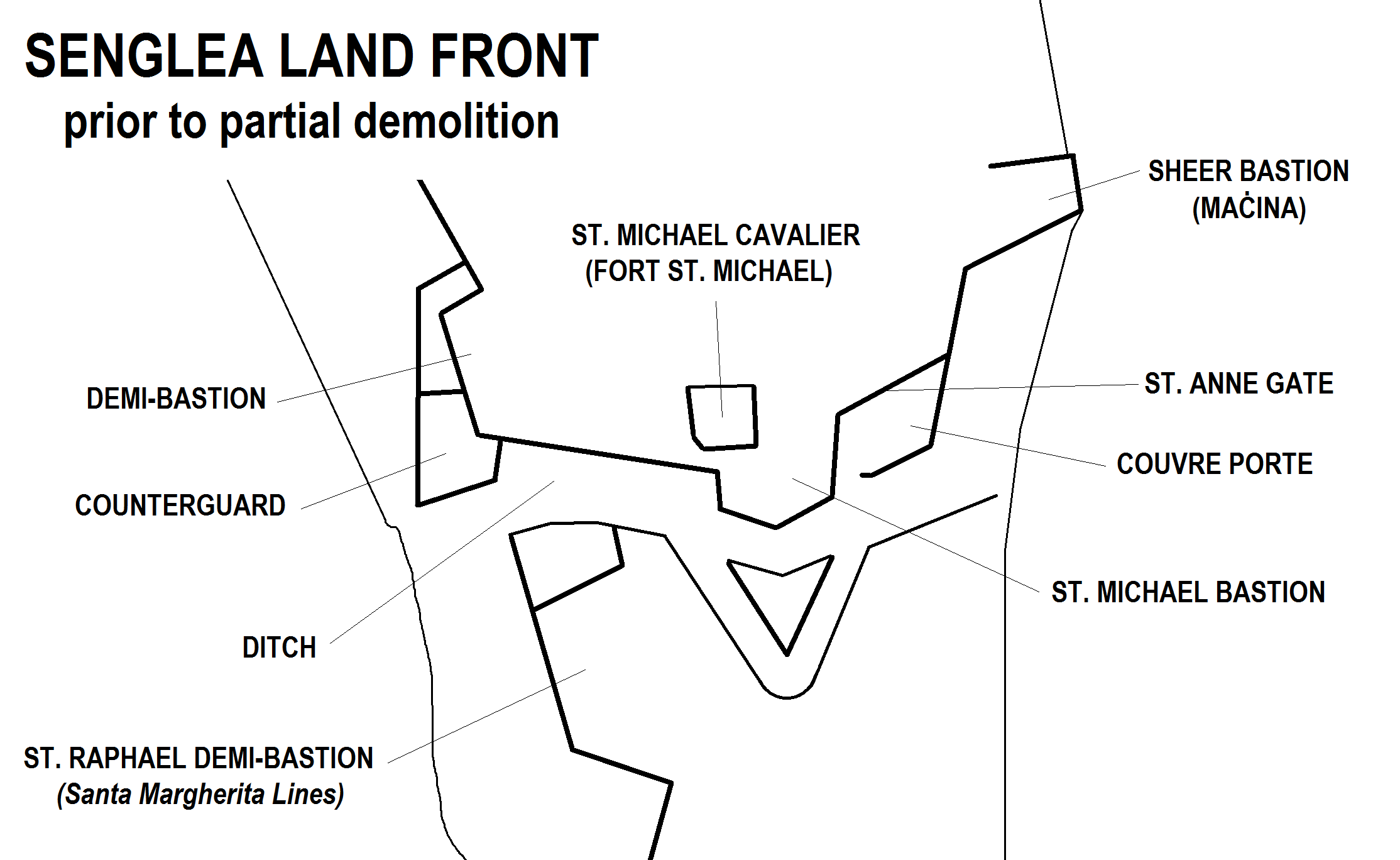 Map of the Senglea Land Front prior to partial demolition in the 19th century